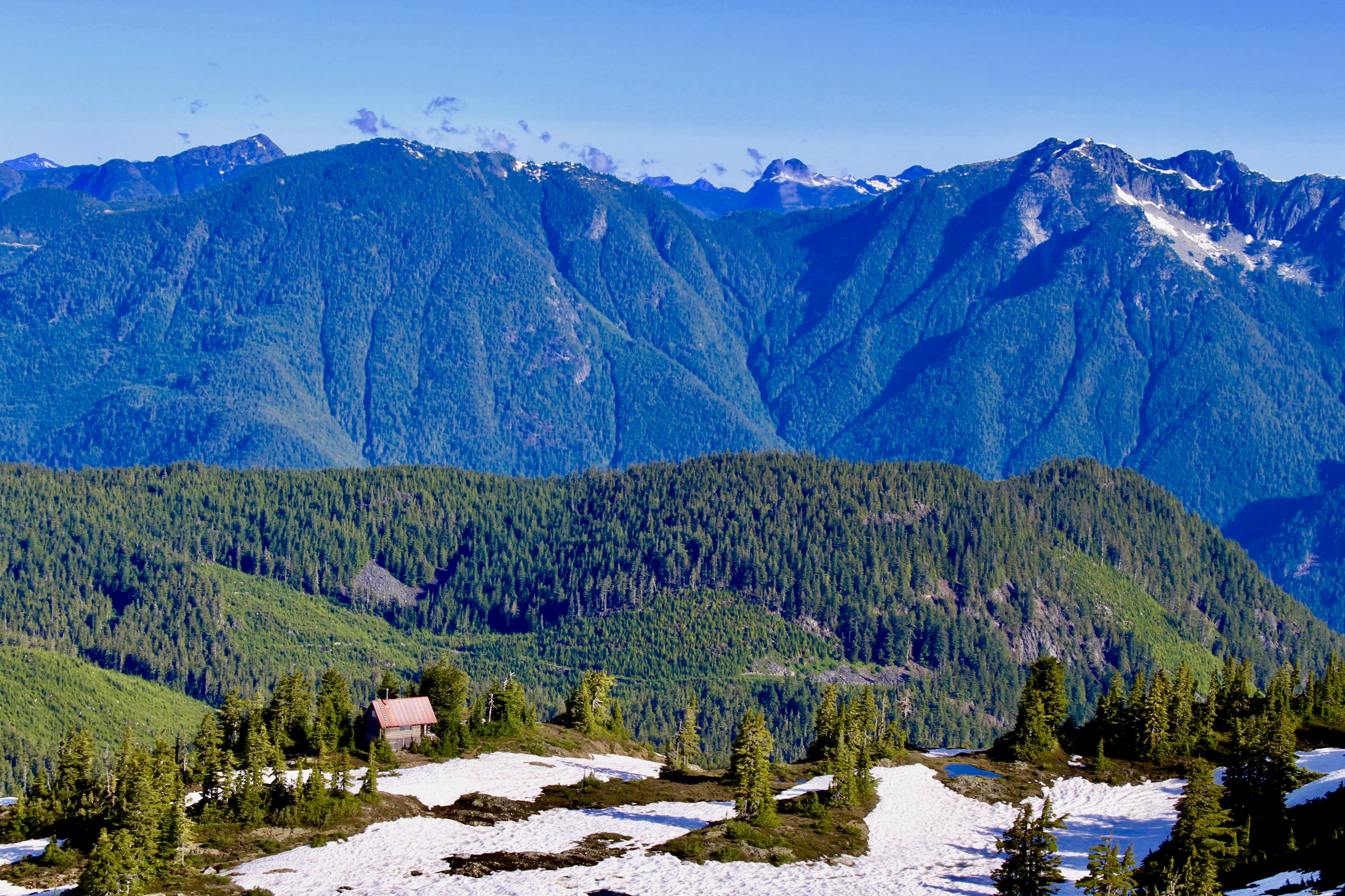 Mount Steele Cabin in Tetrahedron Provincial Park